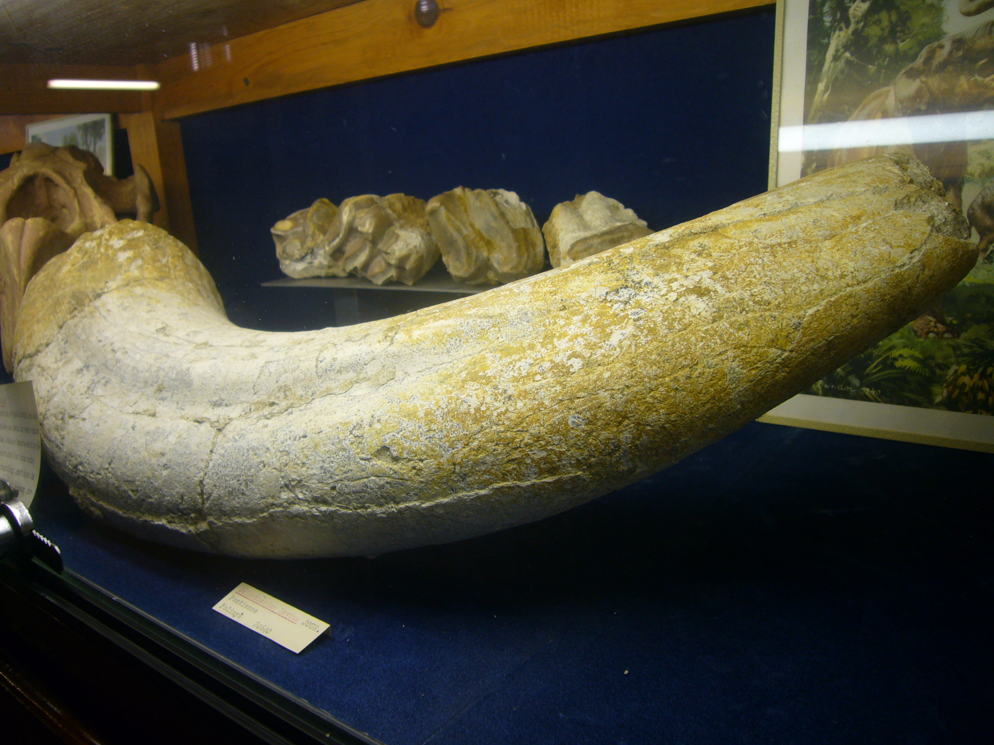 Deinotherium levius. From Polinyà. Fossils. Collection of paleontology of the Geological Museum of the Barcelona Seminari (Museu Geològic del Seminari de Barcelona).